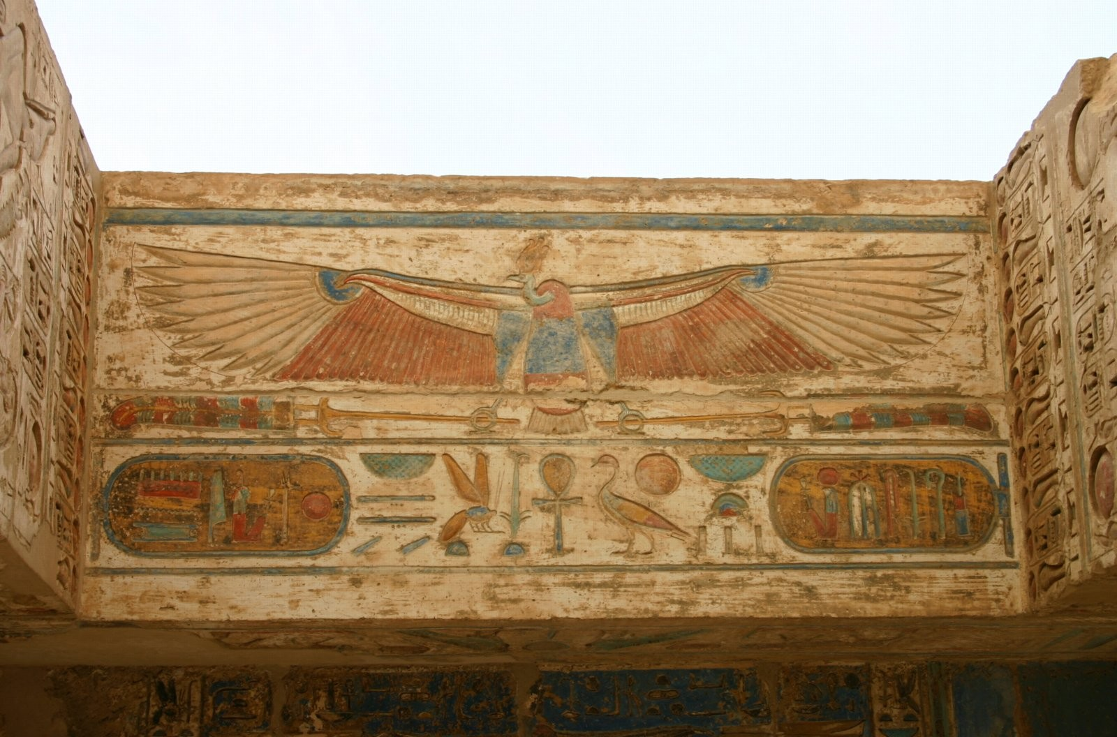 Temple of a million years of Rameses III, Luxor, Egypt. Entry.